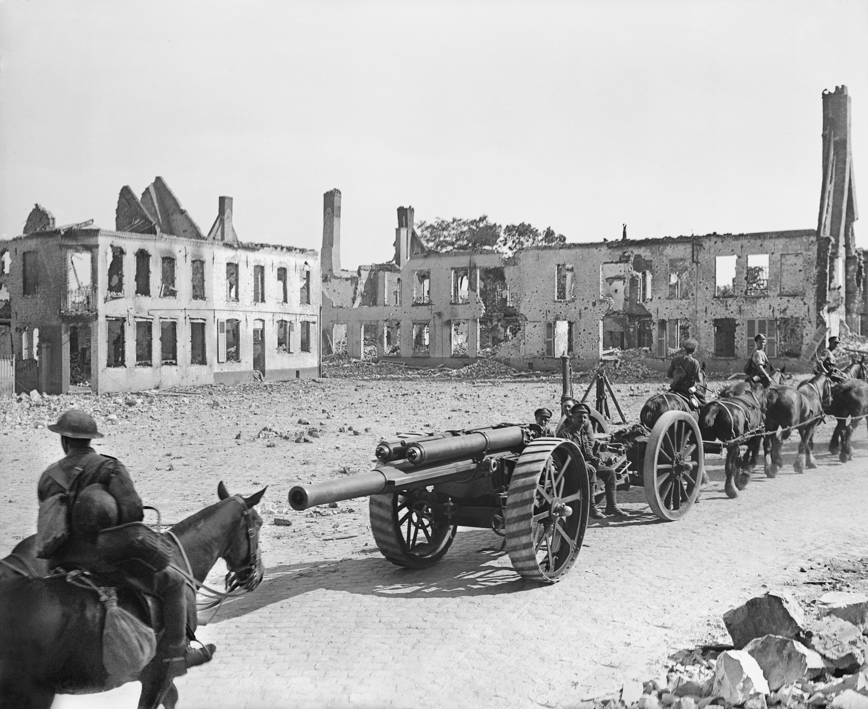 The Hundred Days Offensive, August-november 1918 Advance in Flanders. Troops of the Royal Garrison Artillery moving 60 pounder guns forward through St. Venant, 22 August 1918.